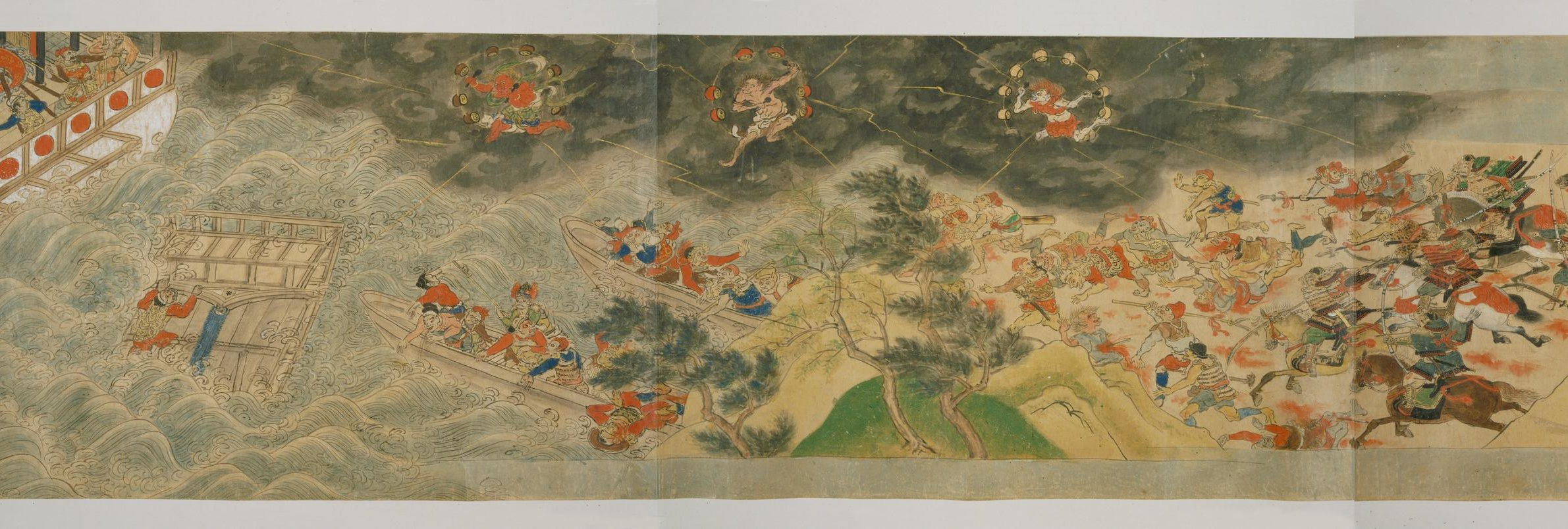 Kiyomizudera engi emaki - Scroll2 Pic1. Famous scene where Thunder Gods are striking ennemies.